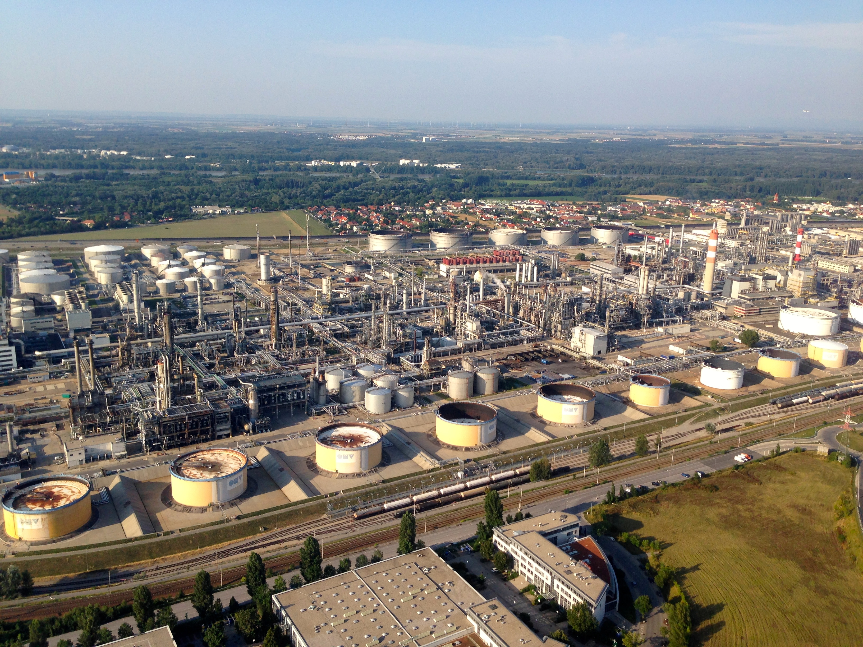 Landing in Vienna on August 2, 2014. Window seat on the pilot’s side. Approach takes you over the city of Vienna and, it was a beautiful day.